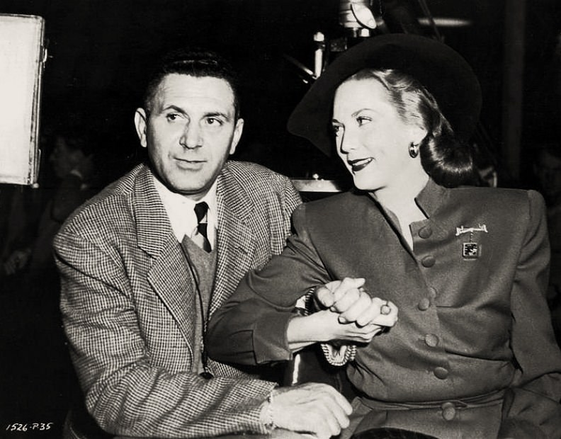 cinematographer Milton R. Krasner & Louise Allbritton on the set of The Egg and I - publicity still